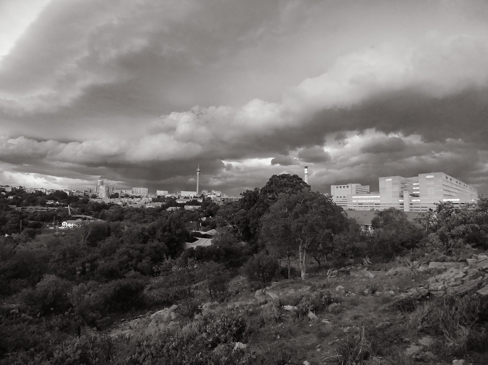 The Charlotte Maxeke Johannesburg General Hospital, taken from The Wilds during a storm